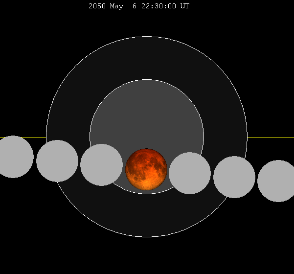 May 2050 lunar eclipse chart of moon's path through the earth's shadow. thumb